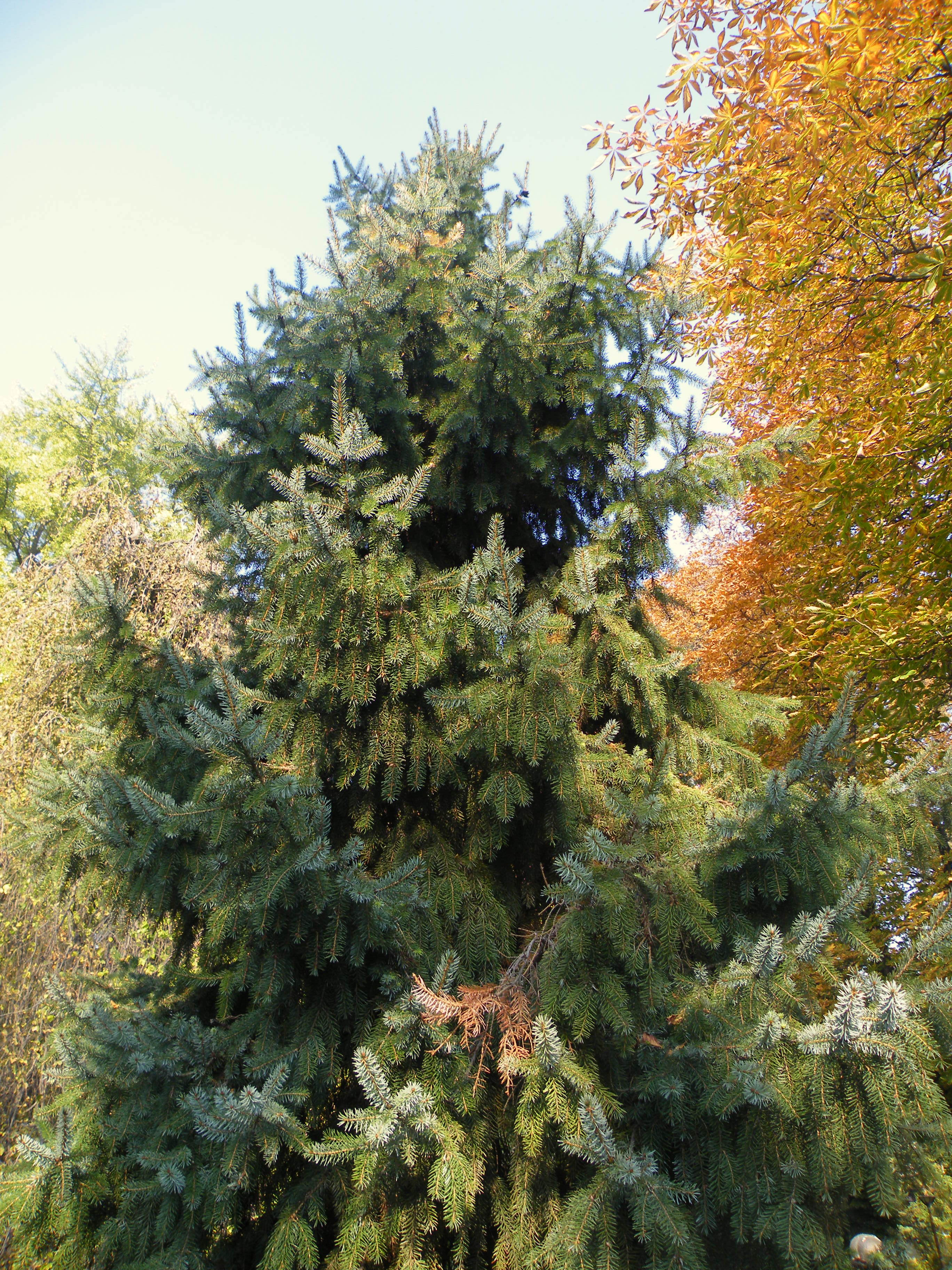 Picea omorika, common name Serbian spruce , was originally discovered near the village of Zaovine on the Tara Mountain in 1875, and named by the Serbian botanist Josif Pančić. This media file is produced by Wikipedian in Residence in Botanical Garden Jevremovac in 2015.